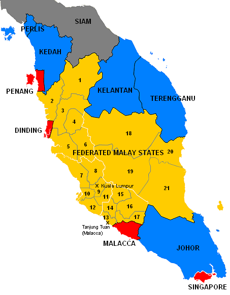 Flag of the Federated Malay States